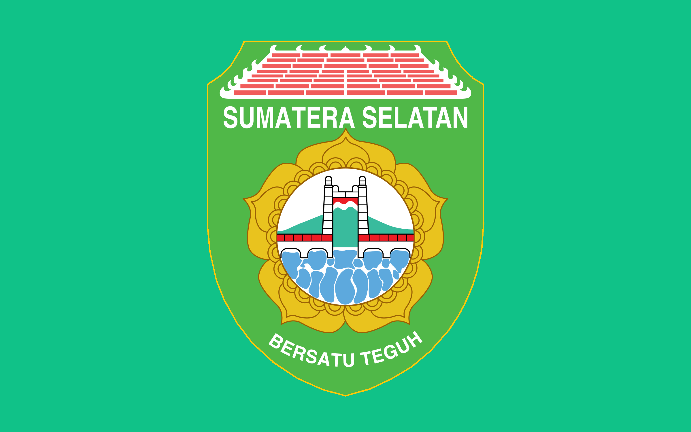 Flag of South Sumatra, See legal regulation about the flag.